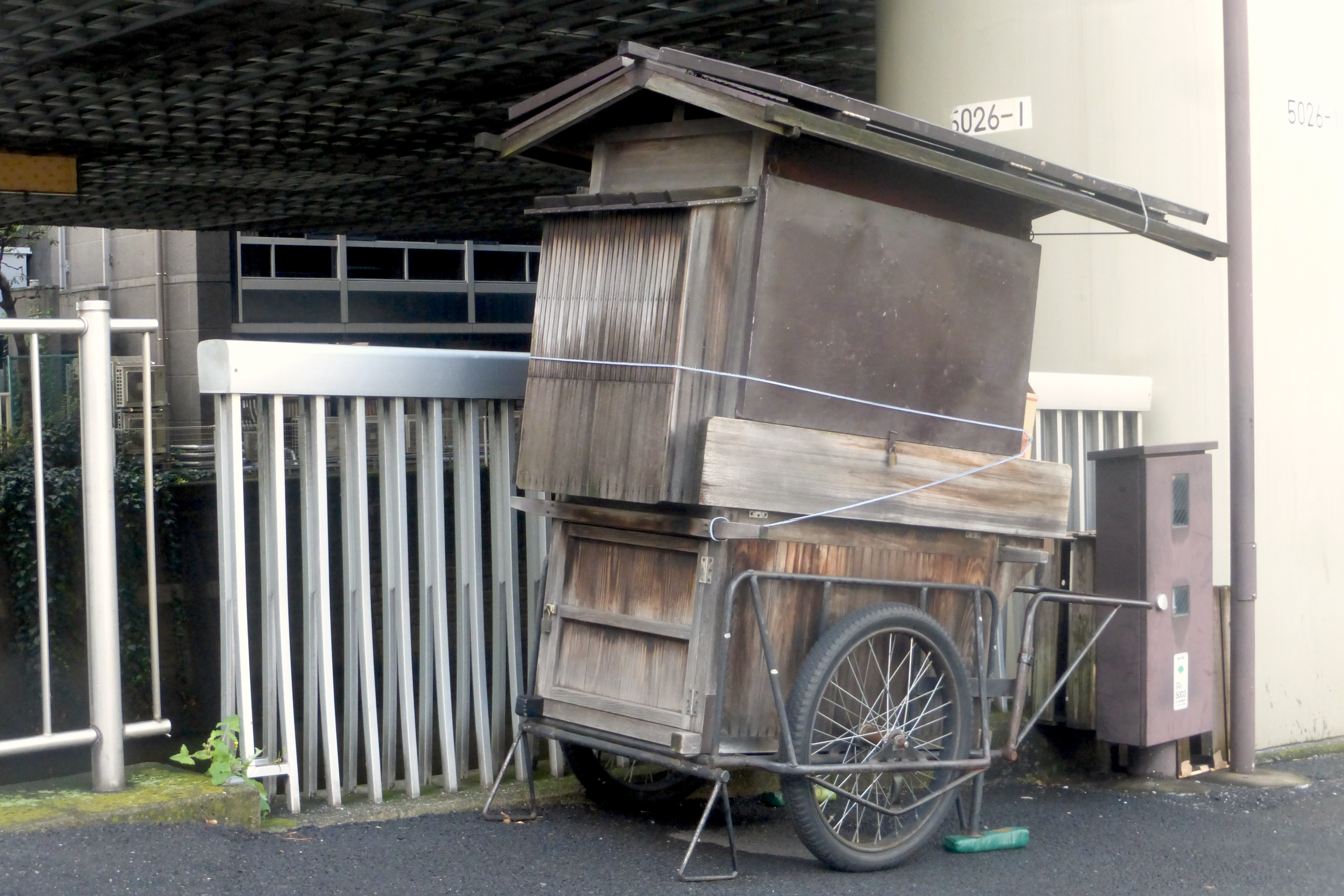 Not operating "yatai" (food stall) in Tokyo area